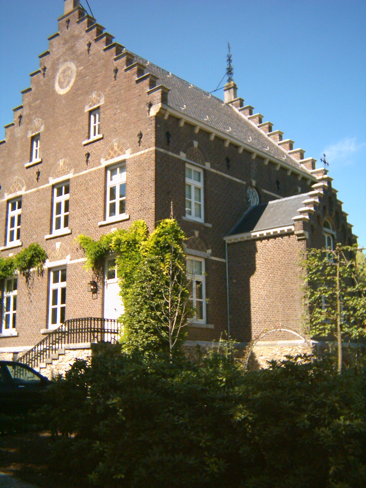 Kasteel Karsveld bij Gulpen Nederlands Limburg